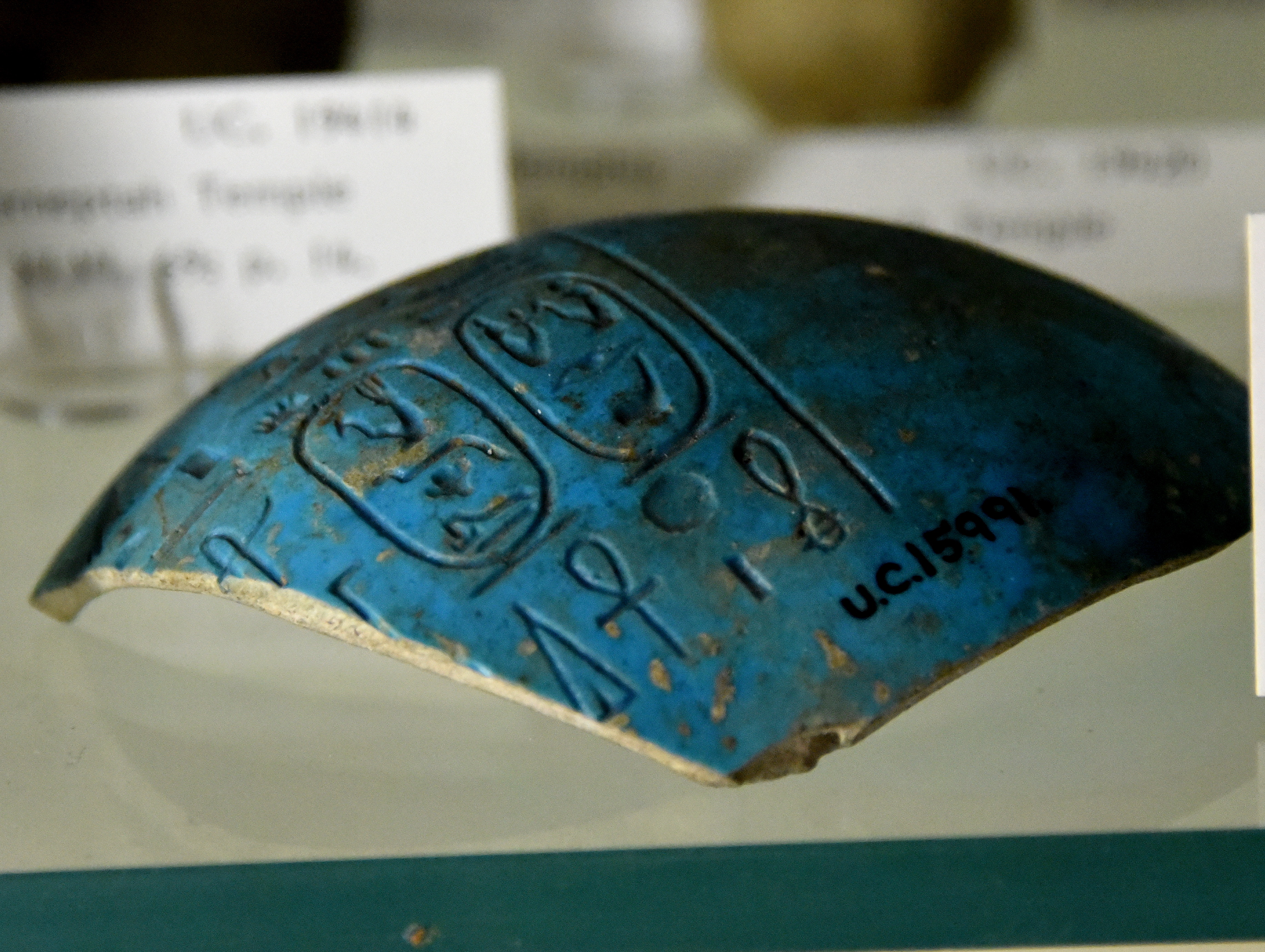 Fragment of a faience saucer inscribed with the name of King Teos (Djedhor). 30th Dynasty. From the Palace of Apries at Memphis, Egypt. The Petrie Museum of Egyptian Archaeology, London. With thanks to the Petrie Museum of Egyptian Archaeology, UCL.